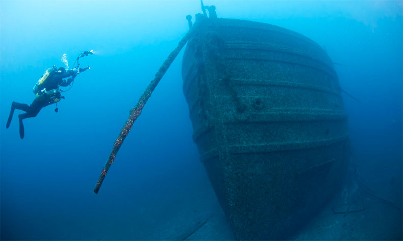 Bow of the wrecked steamer Florida